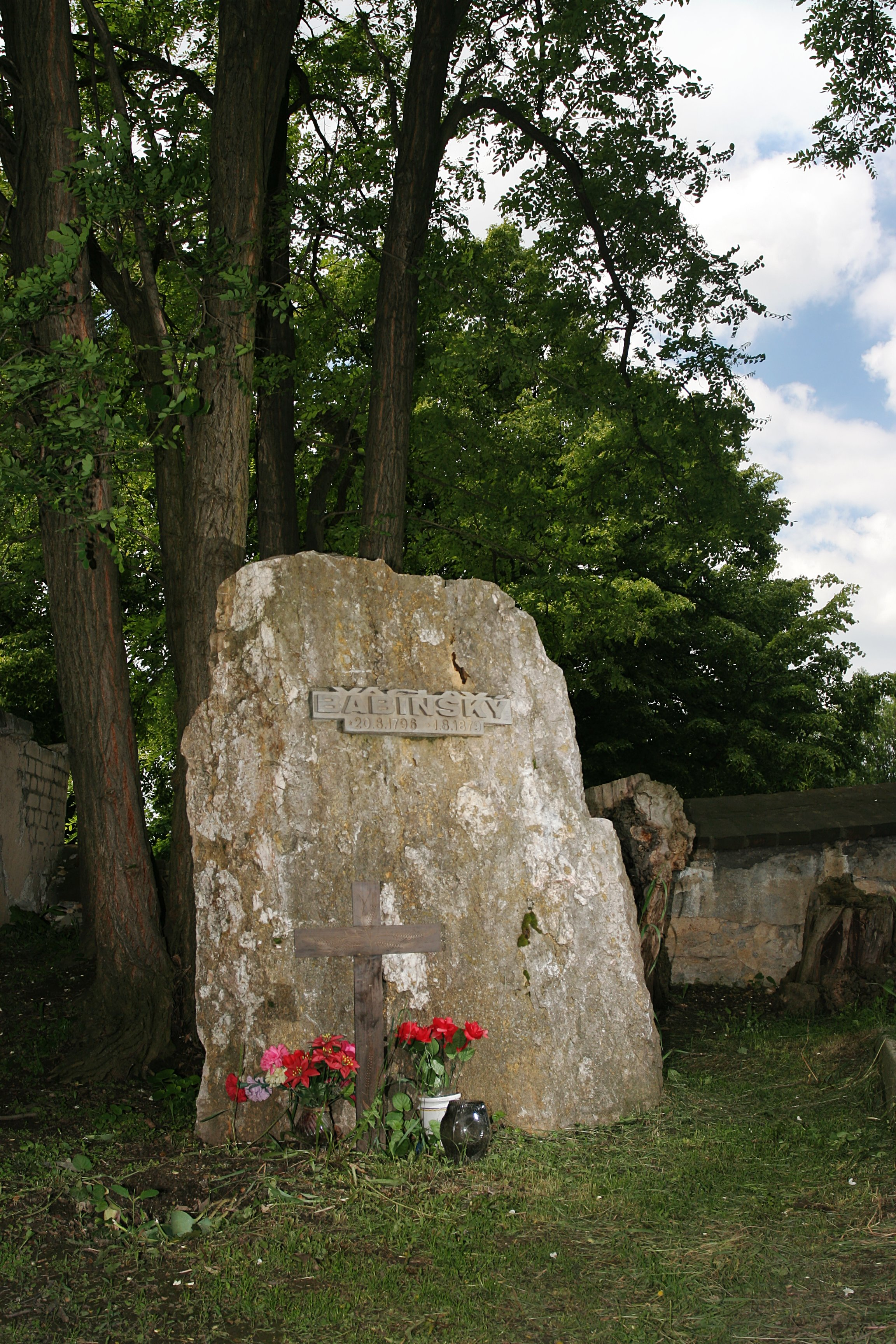 Grave of Václav Babinský at Řepy's cemetery